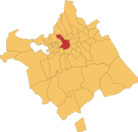 Muncipality (city) of Murcia, Spain, with urban center in blue